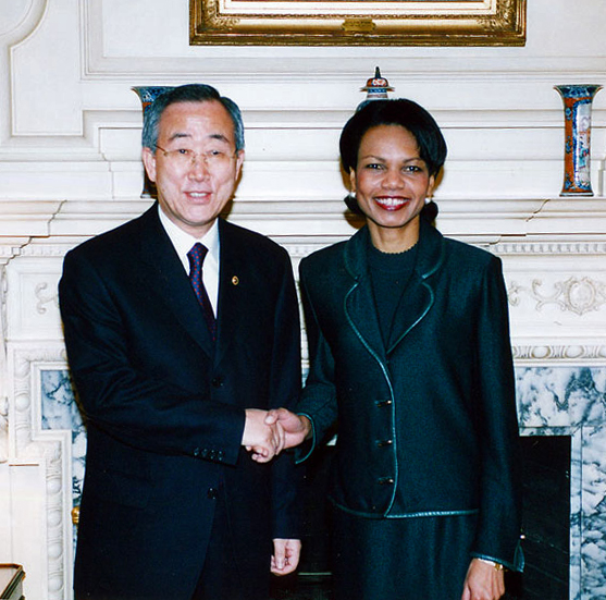 Ban Ki-moon (South Korean Foreign Minister and candidate for UN Secretary General) and Condoleezza Rice. Edited version of Image:2005_02_14_ki-moon2_600.jpg